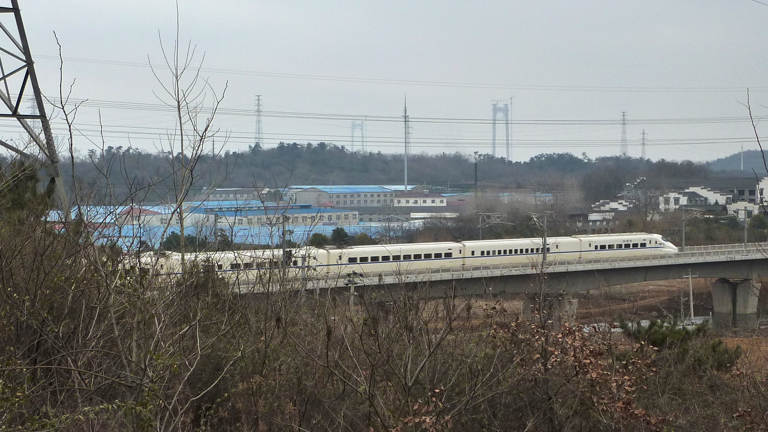 A high-speed train on Shanghai-Nanjing Intercity High-Speed line (Huning Gaotie). The railway pictured crosses Youyi Rd. in Najing's Qixia District (between Ganjiaxiang and Xianlin).